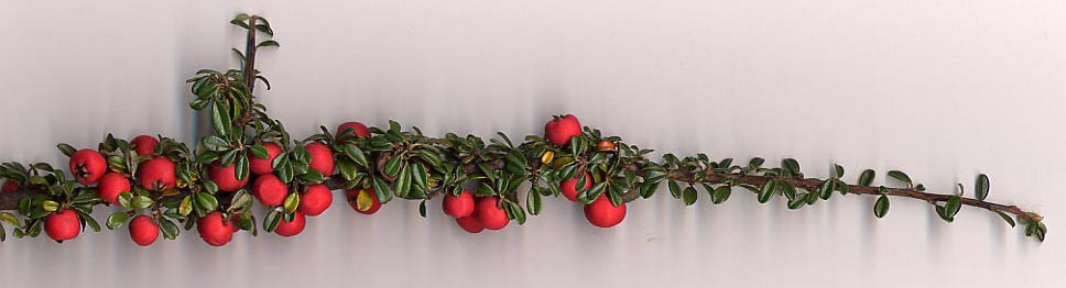 Cotoneaster integrifolius shoot with fruit - photo MPF